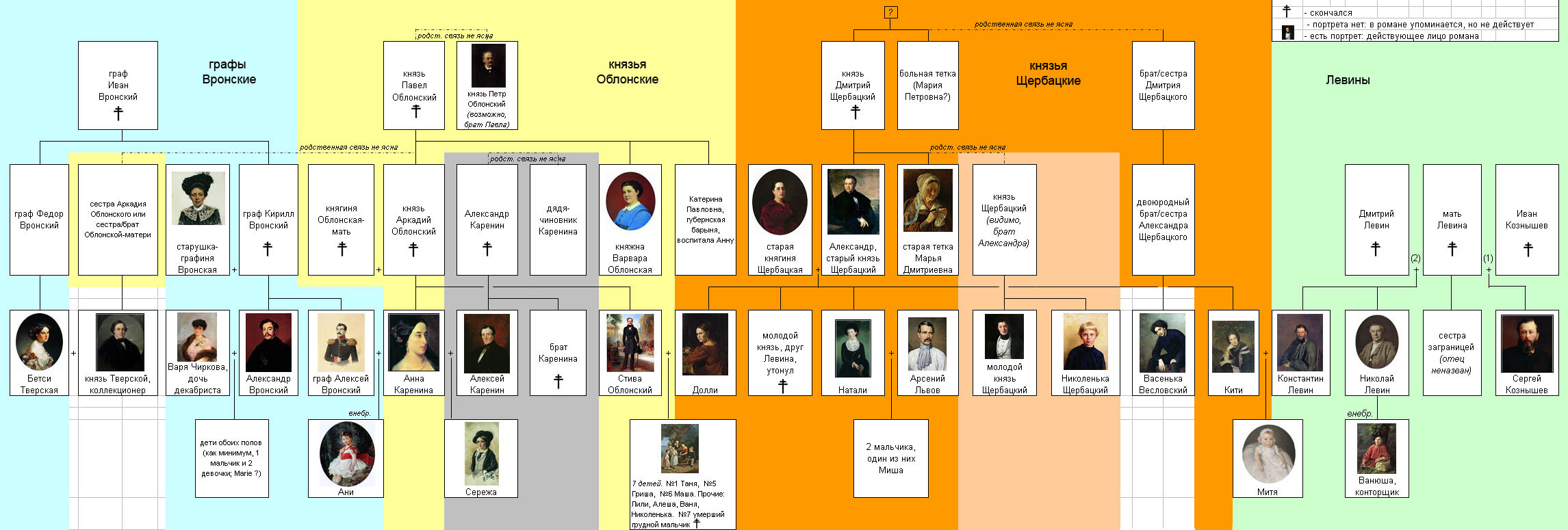 Anna Karenina family tree